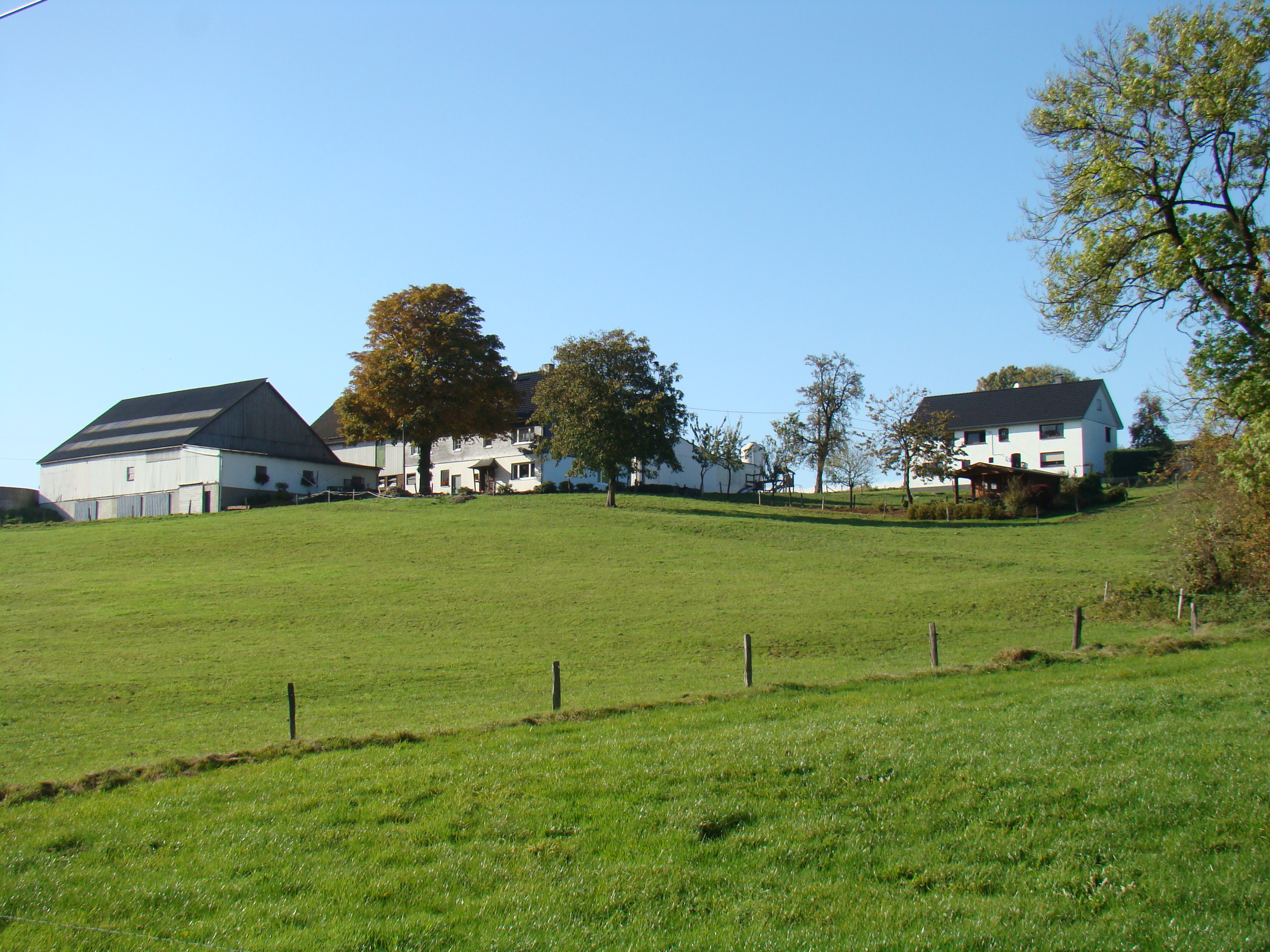 Wipperfürth-Ahlhausen seen from the souteast